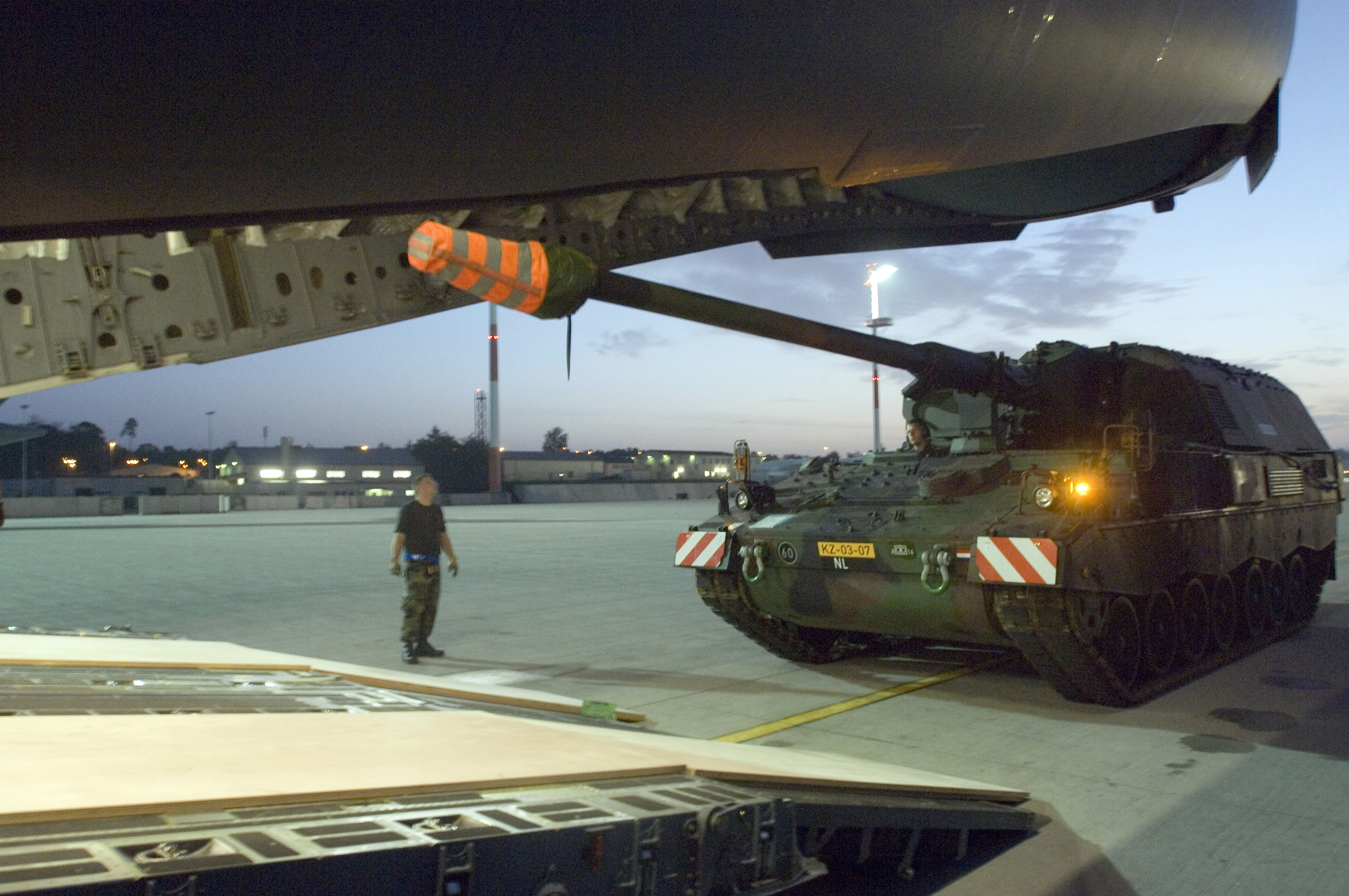 A Howitzer 2000 tank from the Netherlands boards a C-17 Globemaster III aircraft at Ramstein Air Base, Germany, Sept. 6, 2006. The C-17, from the Charleston Air Force Base, S.C., is transporting the 60-ton tank to Afghanistan.